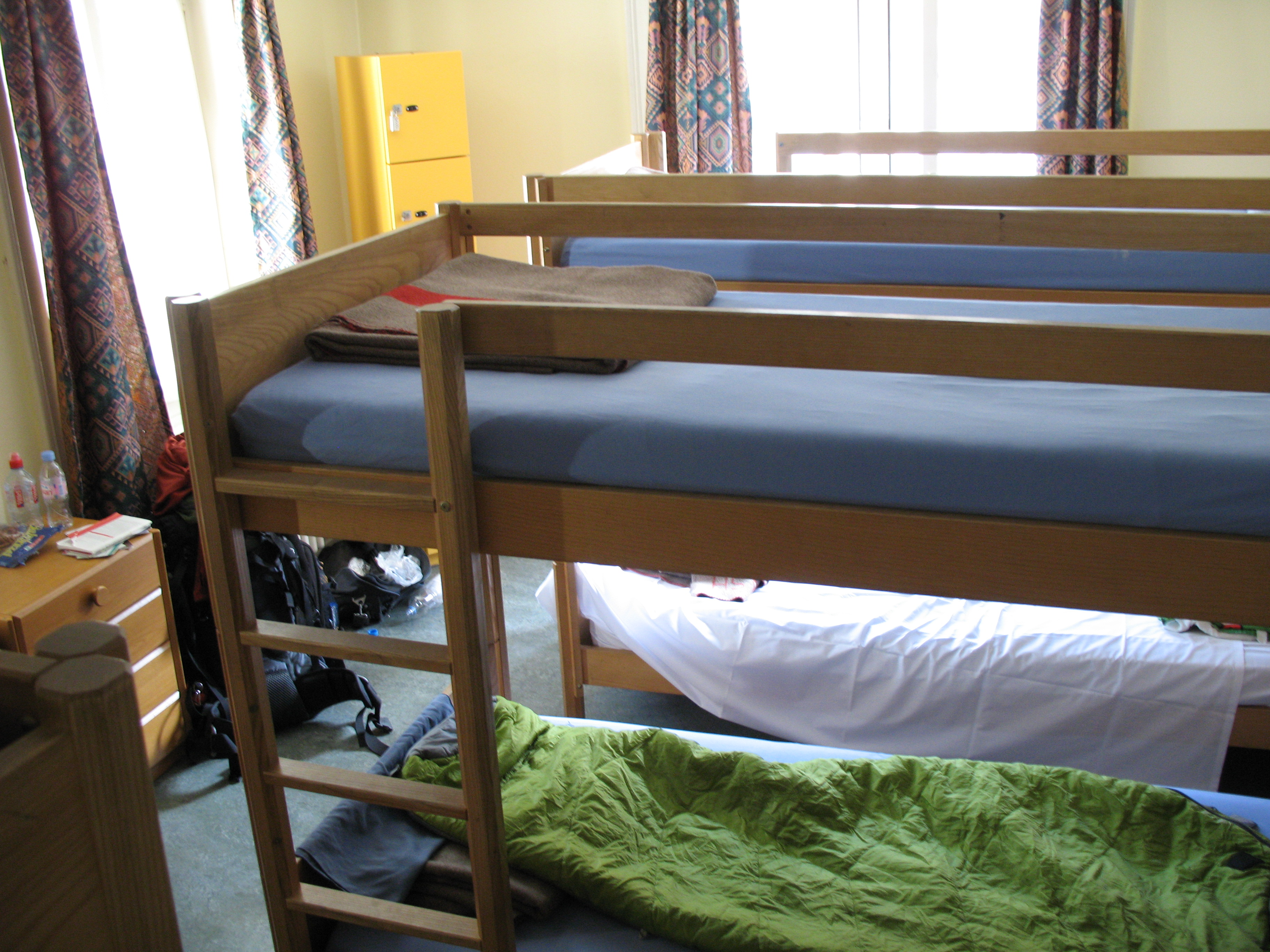 City Backpacker, Zürich, Switzerland